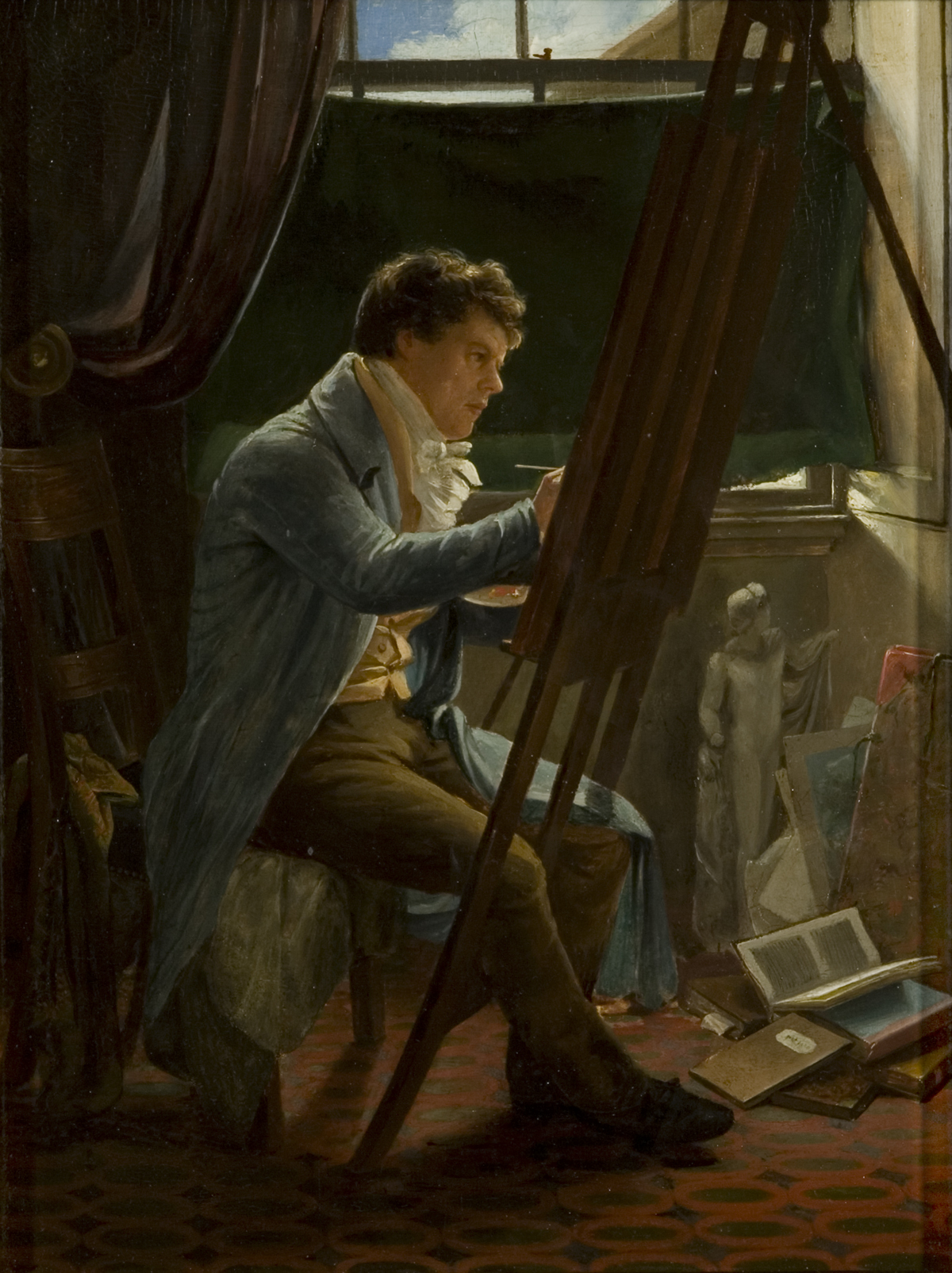 Edward Bird (1772–1819), Oil on mahogany panel, 34.2 x 26.1 cm